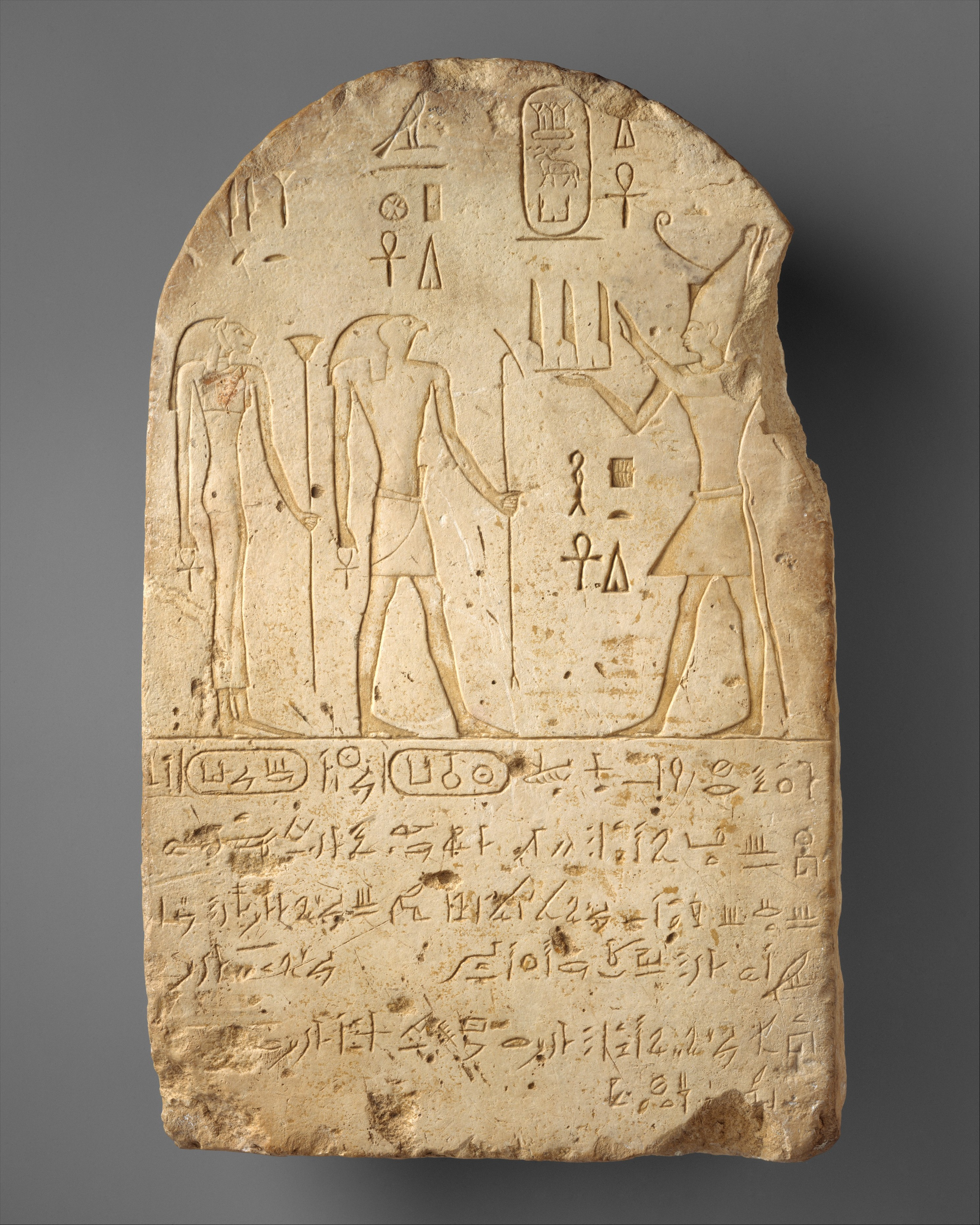 Ancient Egyptian donation stela of pharaoh Shabaqo, written in hieratic. The king is depicted while making offerings to the goddess Wadjet and to Horus of Pe (a local form of Horus), both deities worshipped in the city of Buto, in the Nile Delta. Regnal Year 6 of Shabaqo, 25th Dynasty, Third Intermediate Period. Acc. No. 55.144.6.